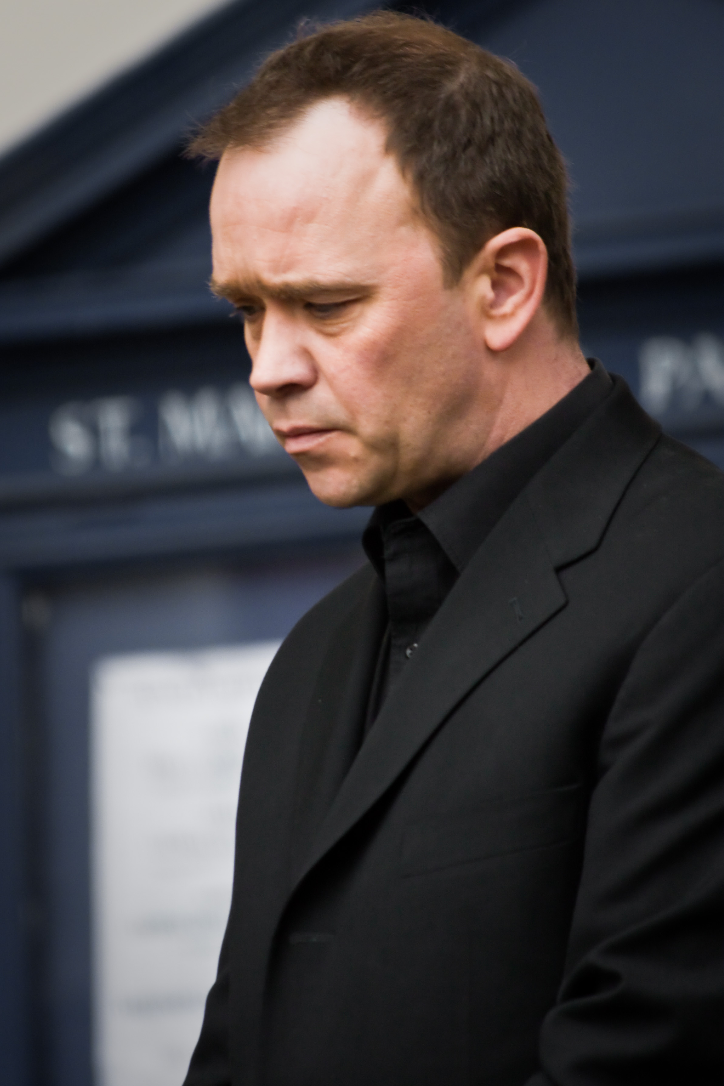 Todd Carty at the funeral service for actress Wendy Richard at St Marylebone Parish Church.